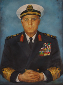 A an oil painting of Marshal Fouad Abu Zikry, ex Commander in Chief of Egyptian Navy